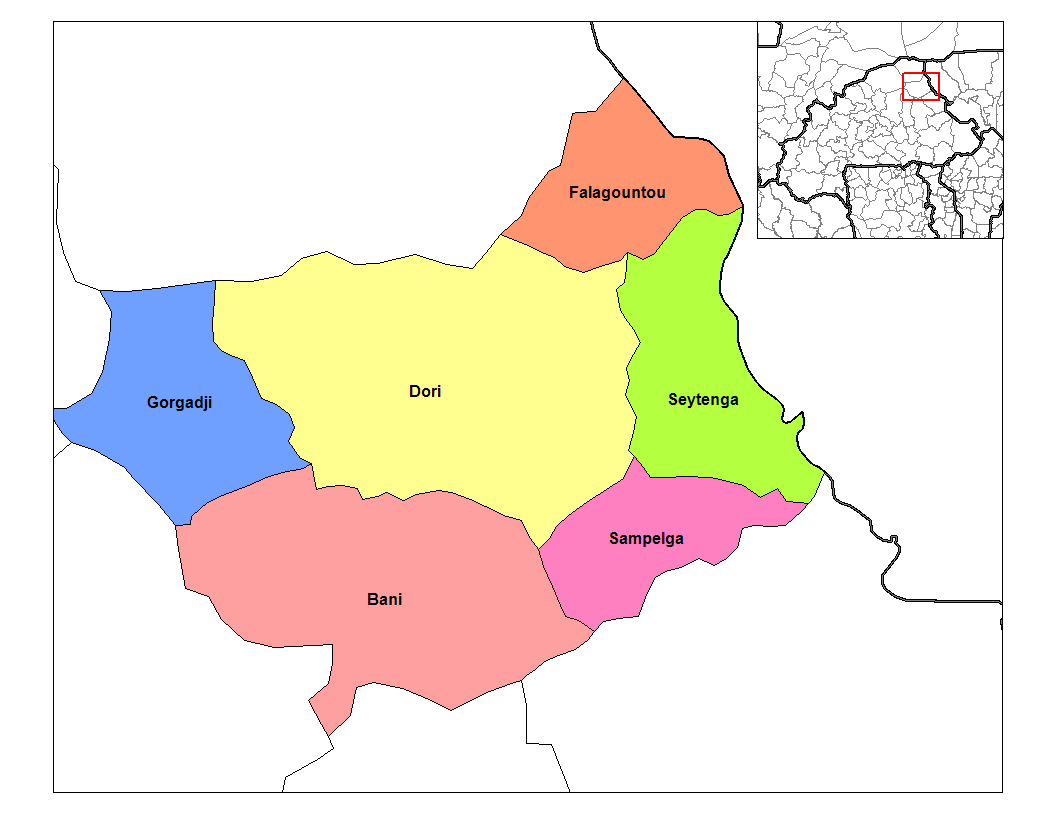 This map has been uploaded by Osiris fancy from to enable the Wikimedia Atlas of the World. Original uploader to was Rarelibra. Osiris fancy is not the creator of this map. Licensing information is below. Map of the departments of Seno province in Burkina Faso. Created by Rarelibra 03:35, 30 September 2006 (UTC) for public domain use, using MapInfo Professional v8.5 and various mapping resources.